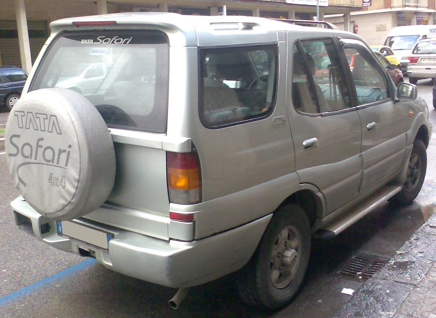 Tata Safari